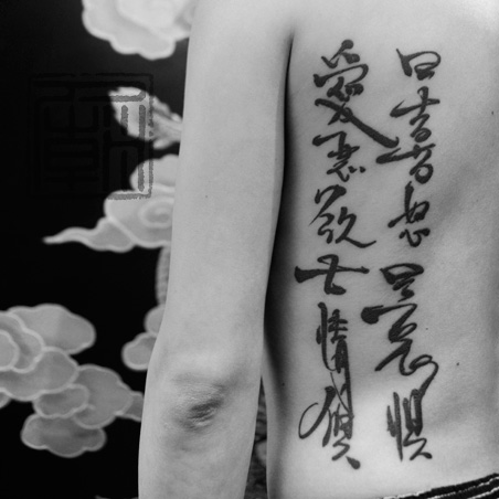 Cursive calligraphy. Calligraphy and tattoo by Joey Pang